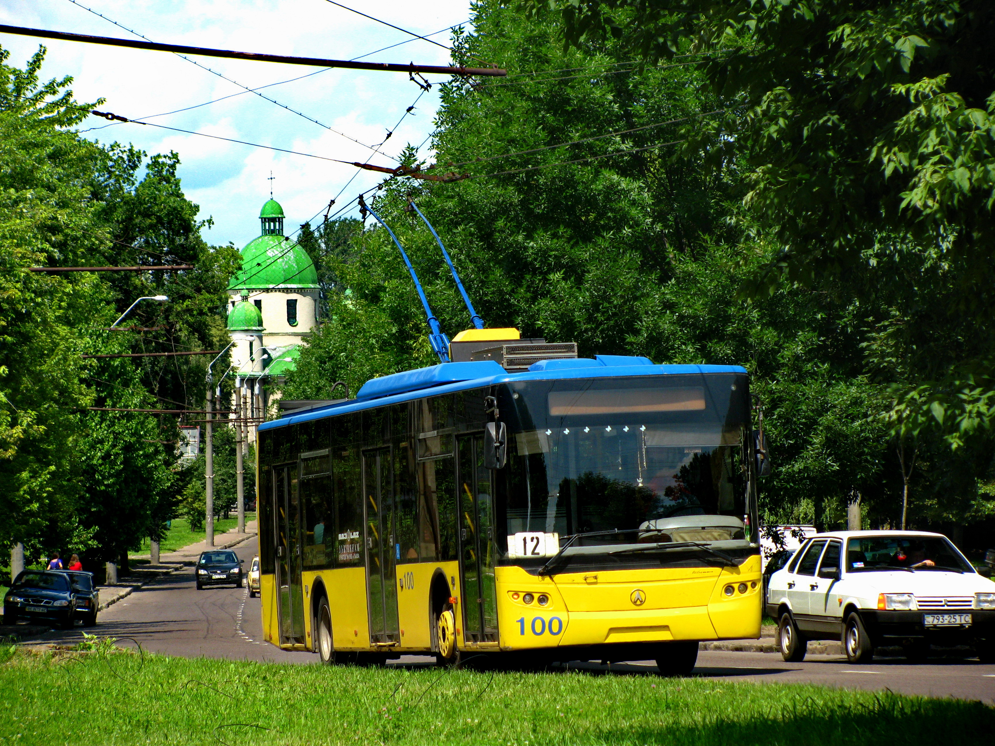 Trolleybus LAZ 12 in Lwów.